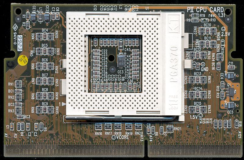 Slot-1 to Socket370 converter.